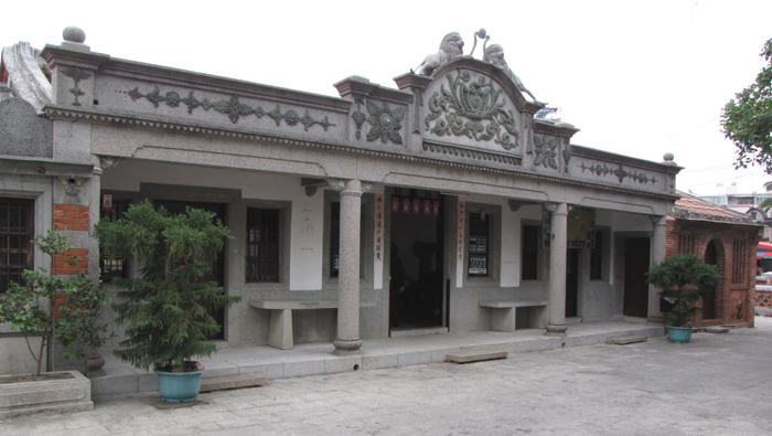 Old House of Siiao Family